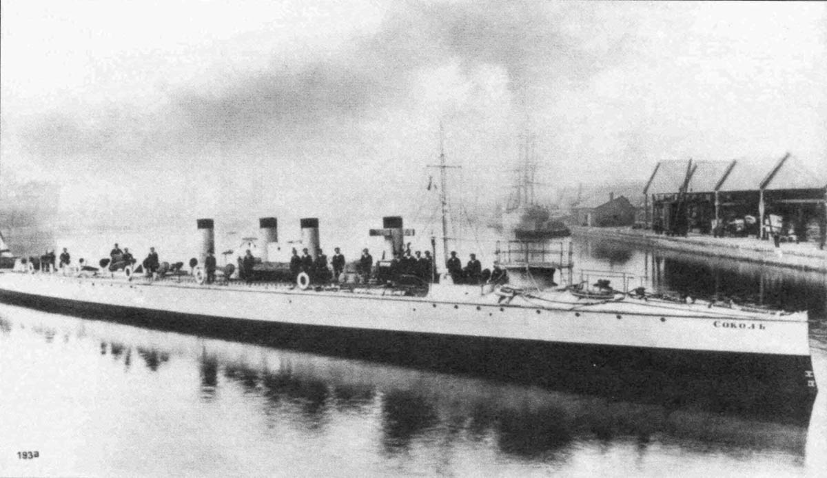 Imperial Russian torpedo boat destroyer Sokol.